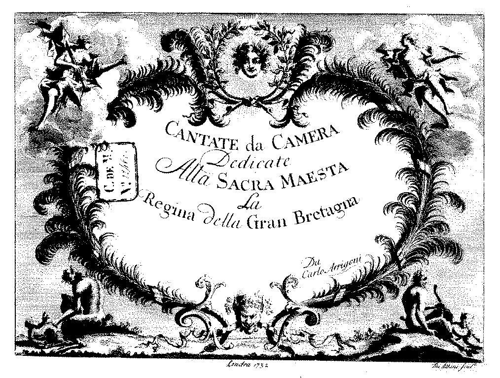 The title page of Carlo Arrigoni's chamber cantata, dedicated to the queen of England, published in London in 1732